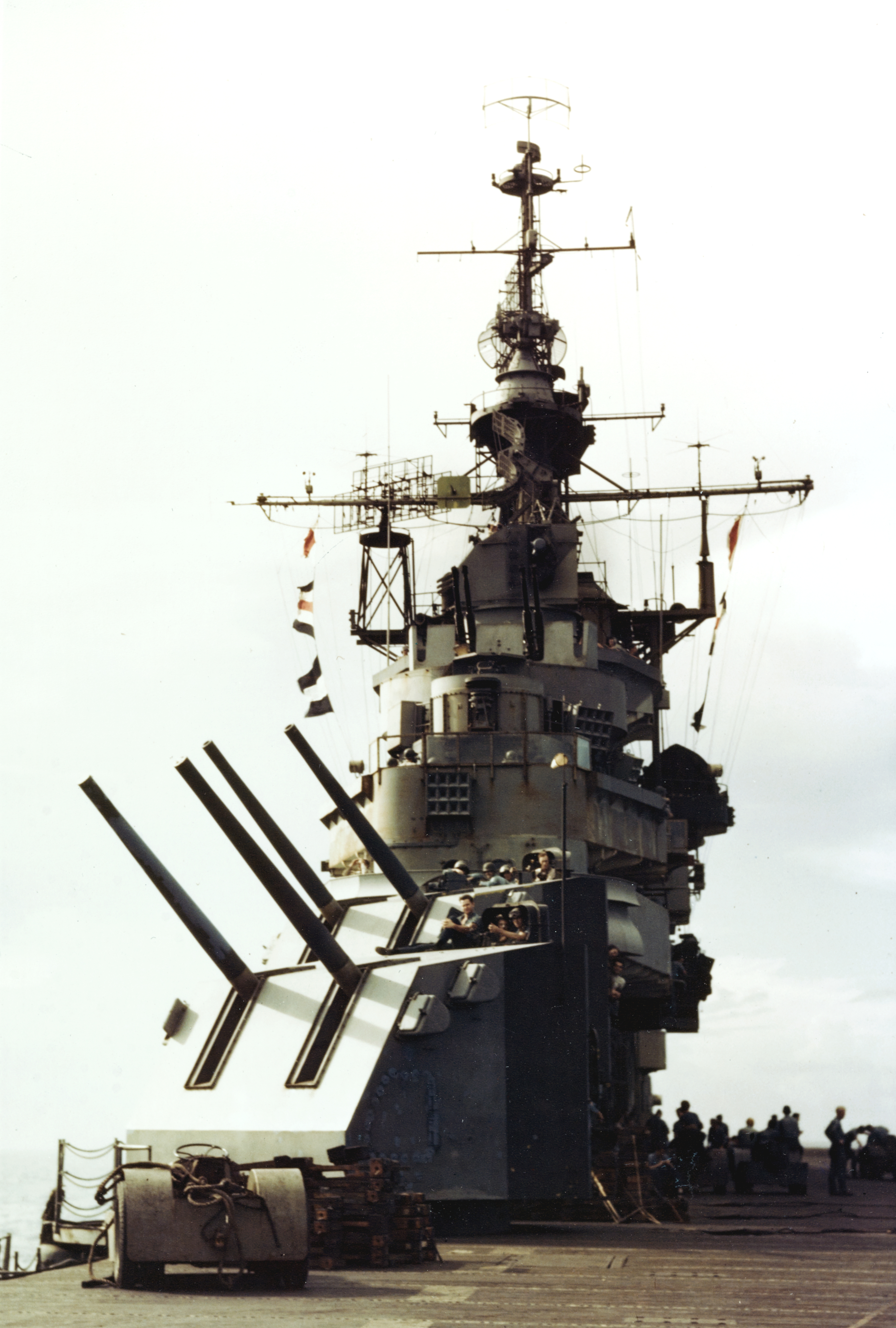 View of the forward 127 mm/38 twin mounts aboard the U.S. Navy aircraft carrier USS Intrepid (CV-11) trained on the starboard bow, with the island beyond, between August and December 1944. Note the radars and other electronics, and also the deck tractor.